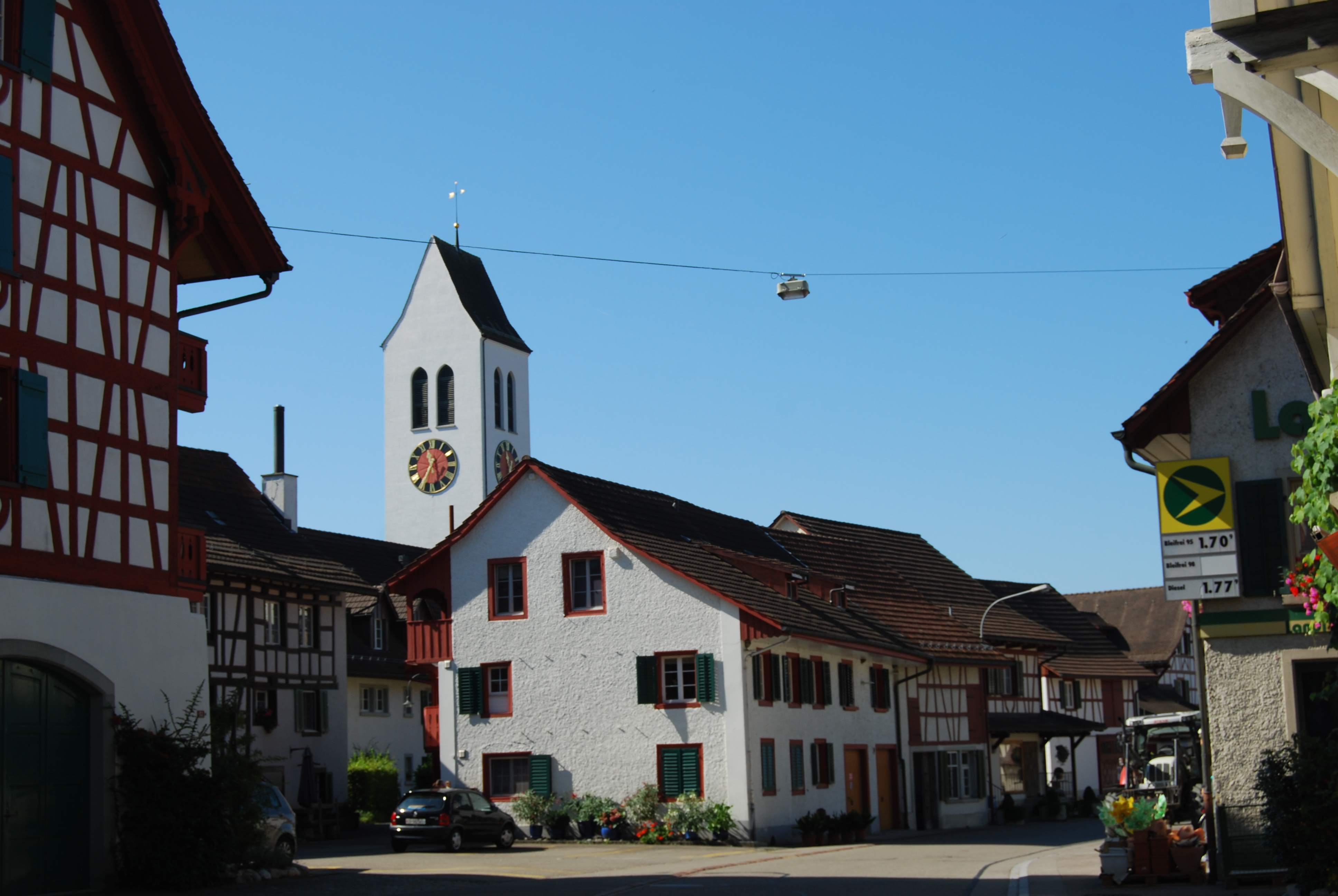 Ossingen, canton of Zürich, Switzerland